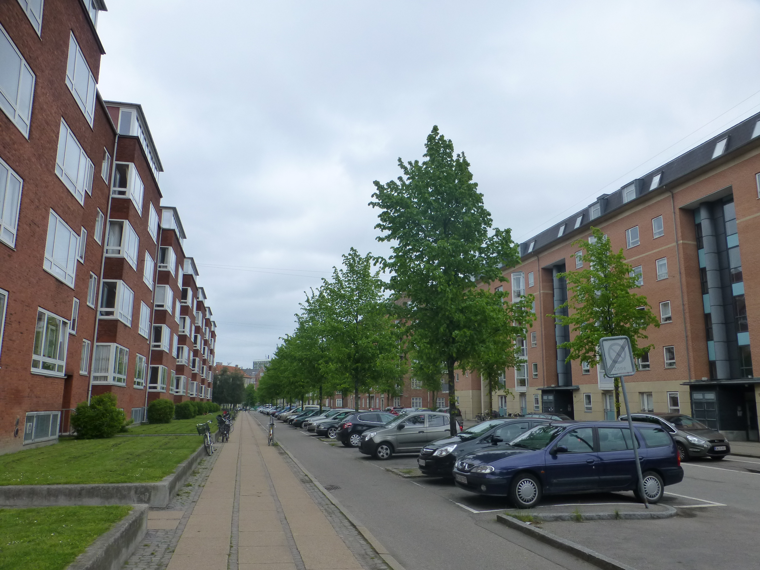 The street Borgmester Jensens Allé in Østerbro in Copenhagen.